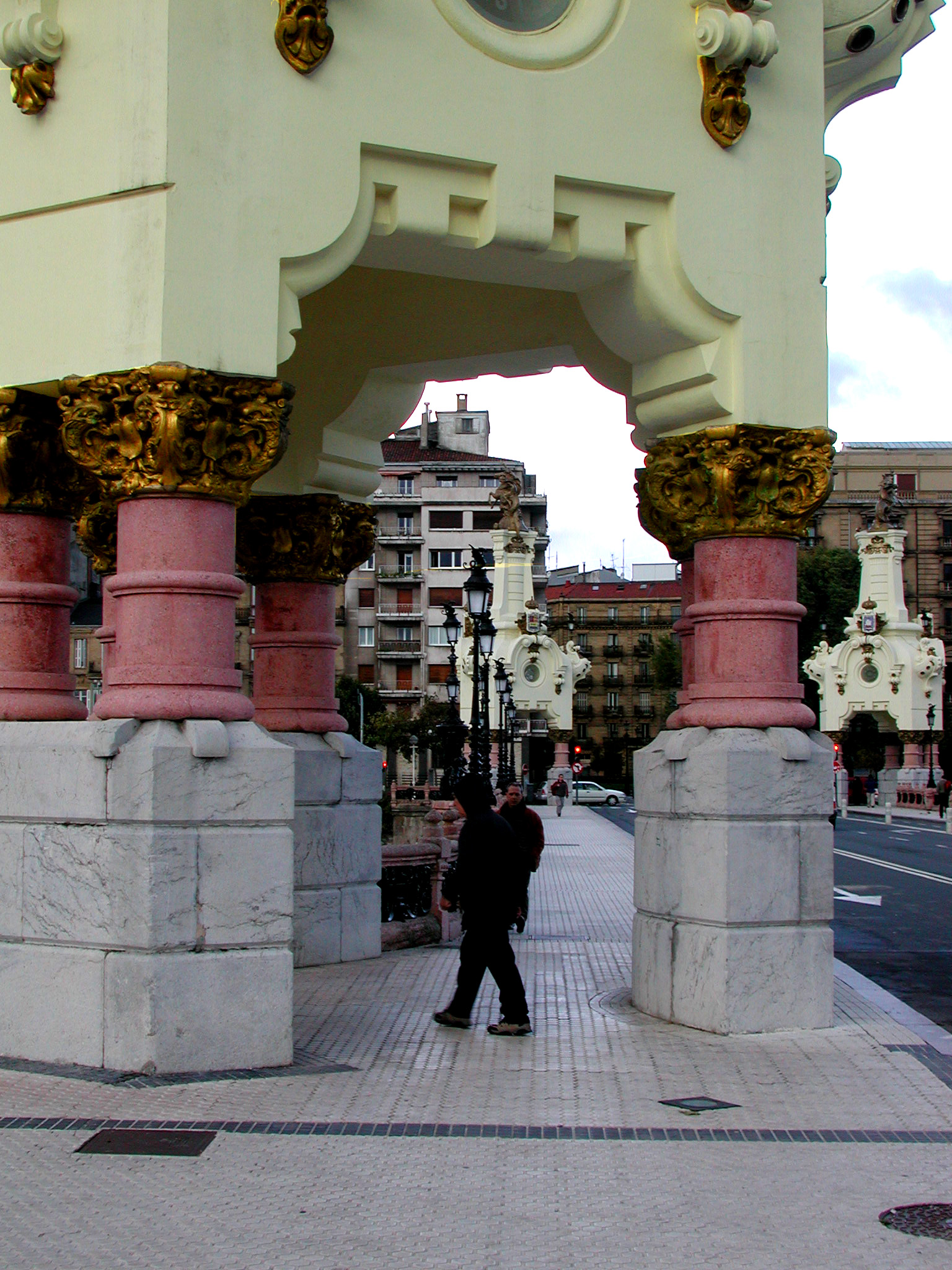 Maria Cristina Bridge, Donostia-San Sebastián.